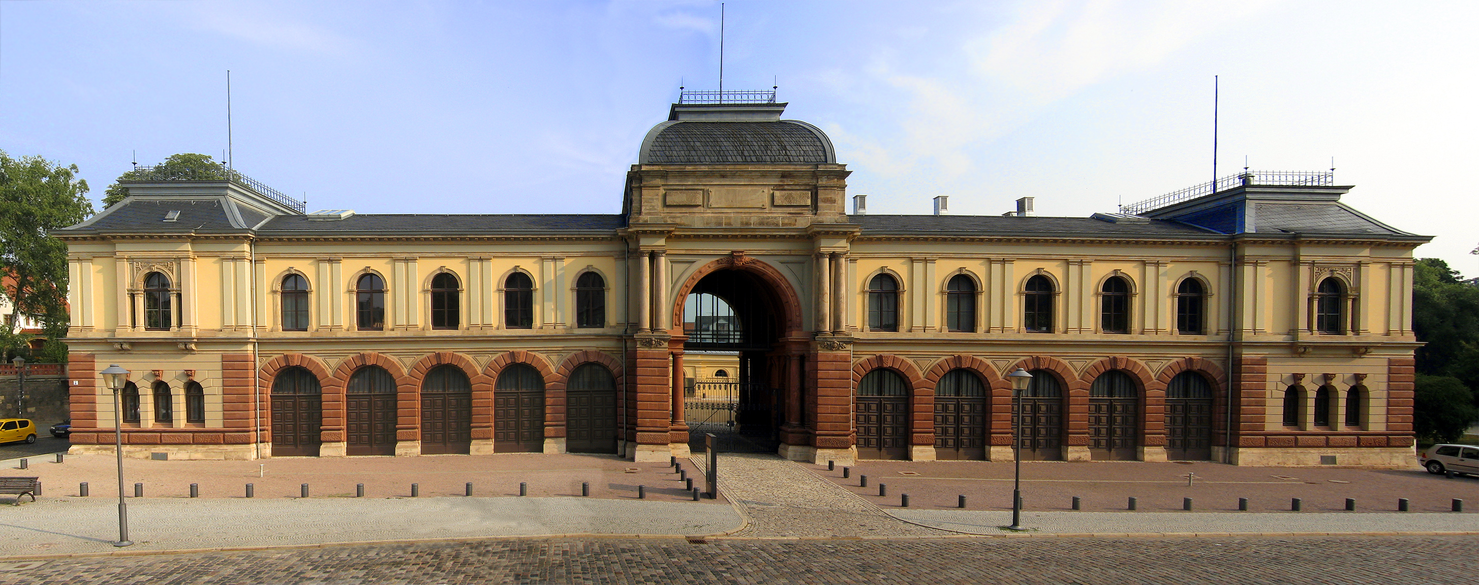 The Marstall of Weimar